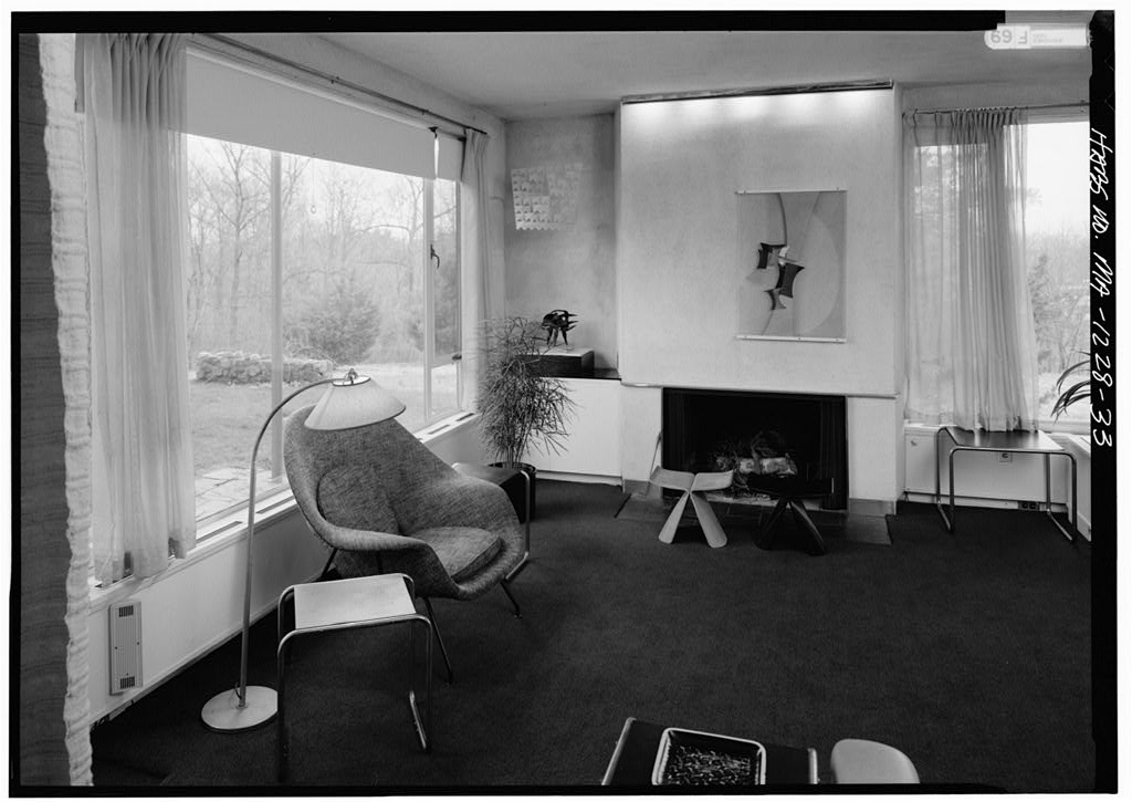 Gropius House, 68 Baker Bridge Road, Lincoln, Middlesex County, MA Building/structure dates: 1938 initial construction National Register of Historic Places NRIS Number: 00000709 Significance: Designed by Walter Gropius, founder of the German architectural school Bauhaus, as his family home. Marcel Breuer, another Bauhaus architect, designed much of the furniture for the house. It is a National Historic Landmark Alternate name: Storrow House